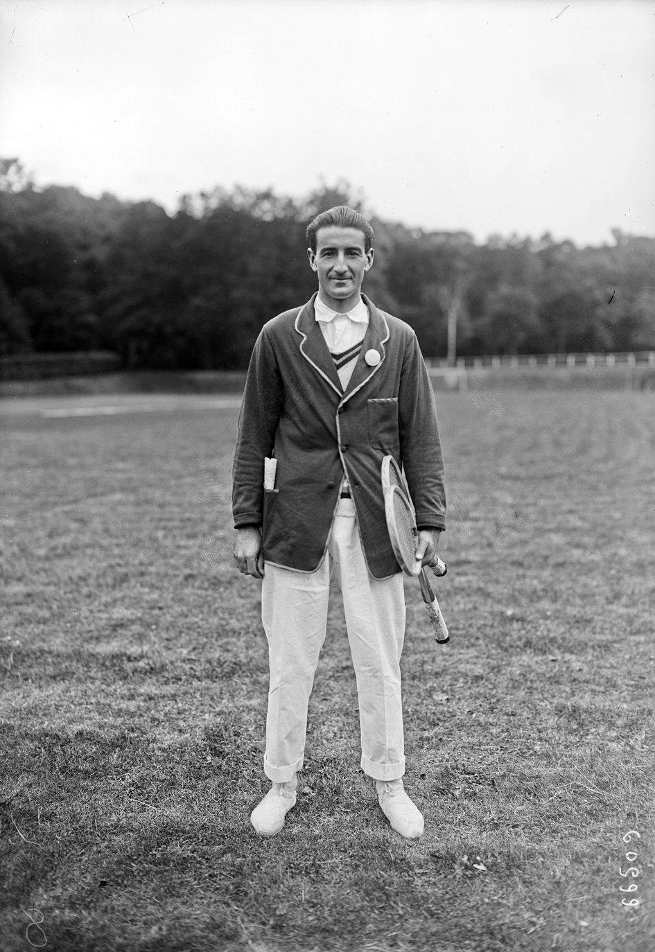 Spanish tennis player José María Alonso de Areyzaga at the 1921 World Hard Court Championships in Parc de la Faisanderie, Saint-Cloud, Paris.